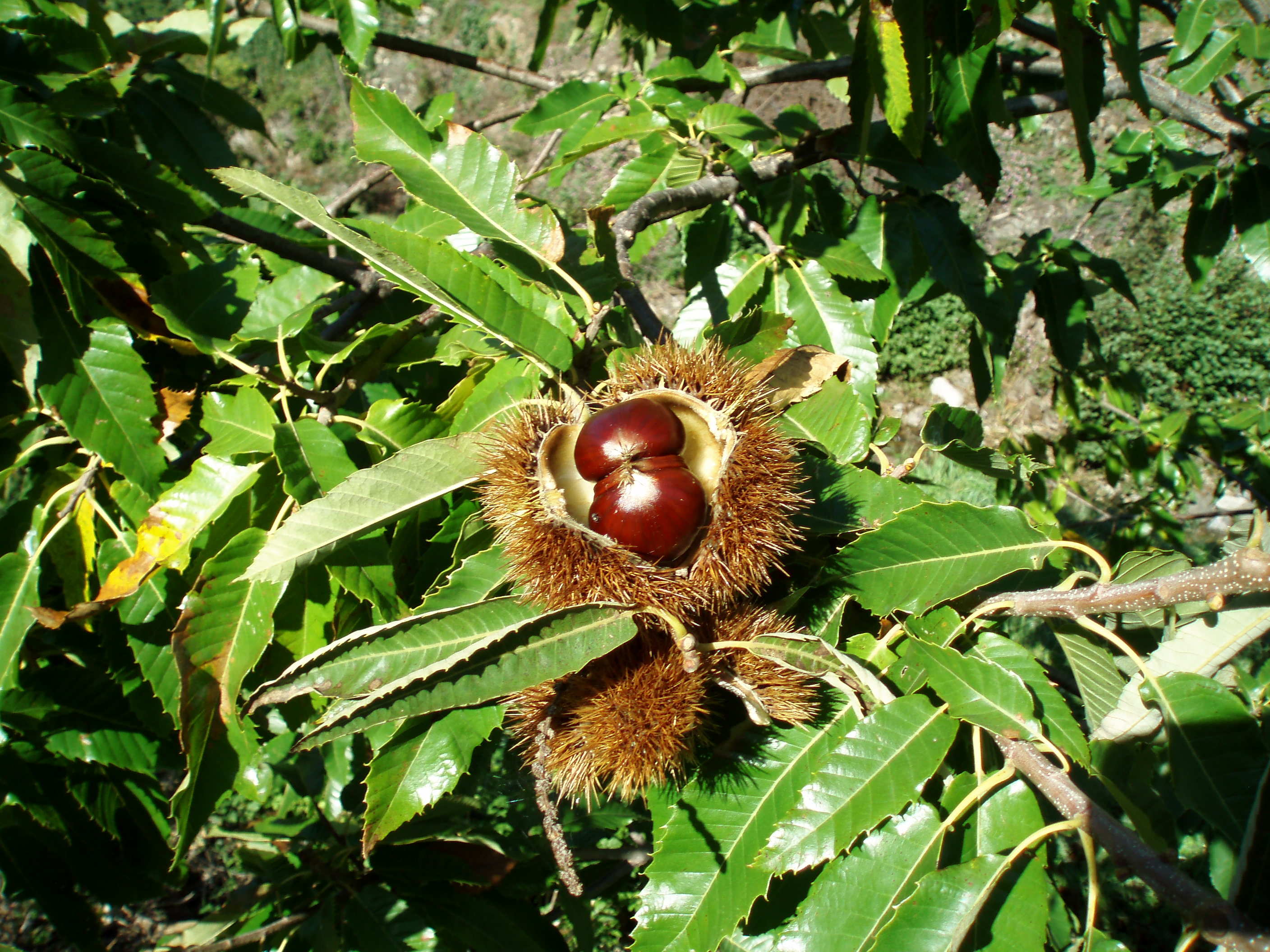 Chestnut in Cévennes (France)